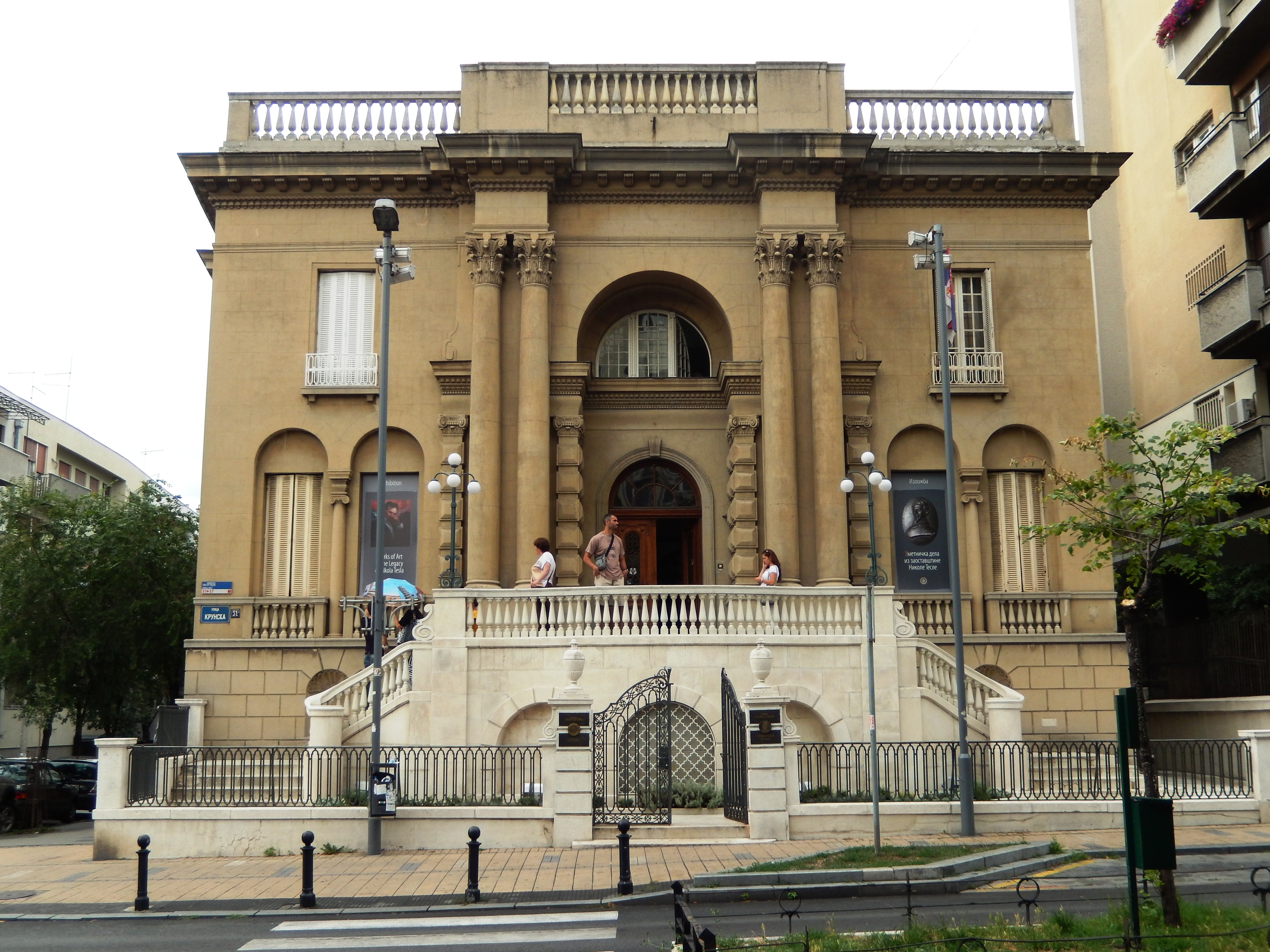 Генчићева кућа се налази у Београду, у Крунској улици 51. Од 1952. године у згради је смештен Музеј Николе Тесле.